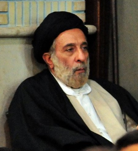 Cropped image of Hadi Khamenei